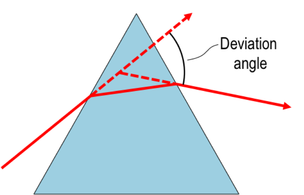 Diagram shows a light ray being deflected as it enters and exits a prism